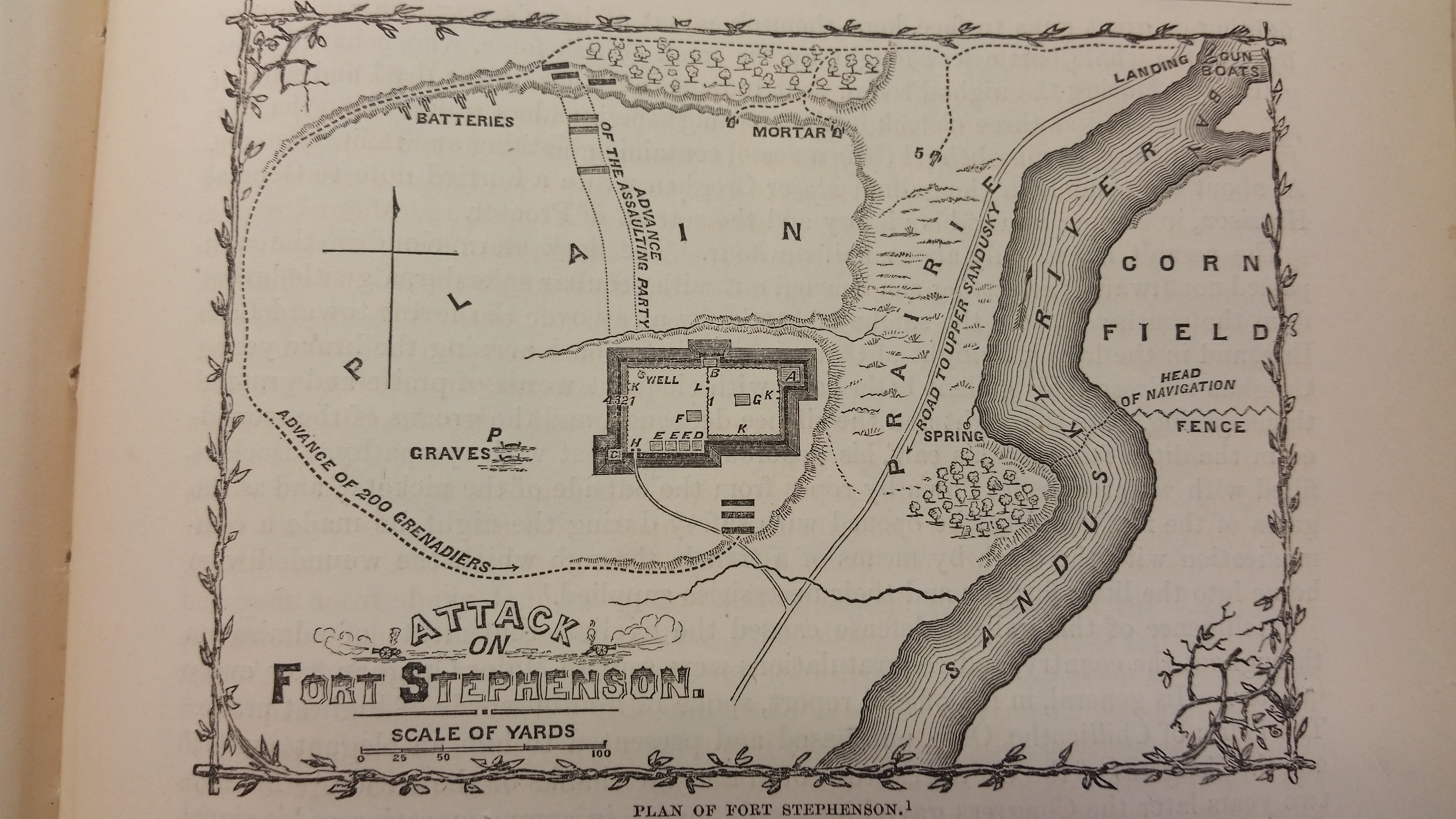 Fort Stephenson